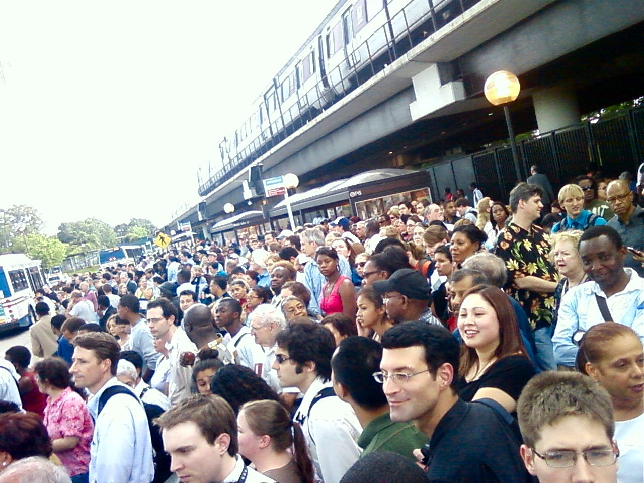 Rush hour crowds attempting to catch shuttle buses at Rhode Island Avenue, following the 2009 Washington Metro train collision.